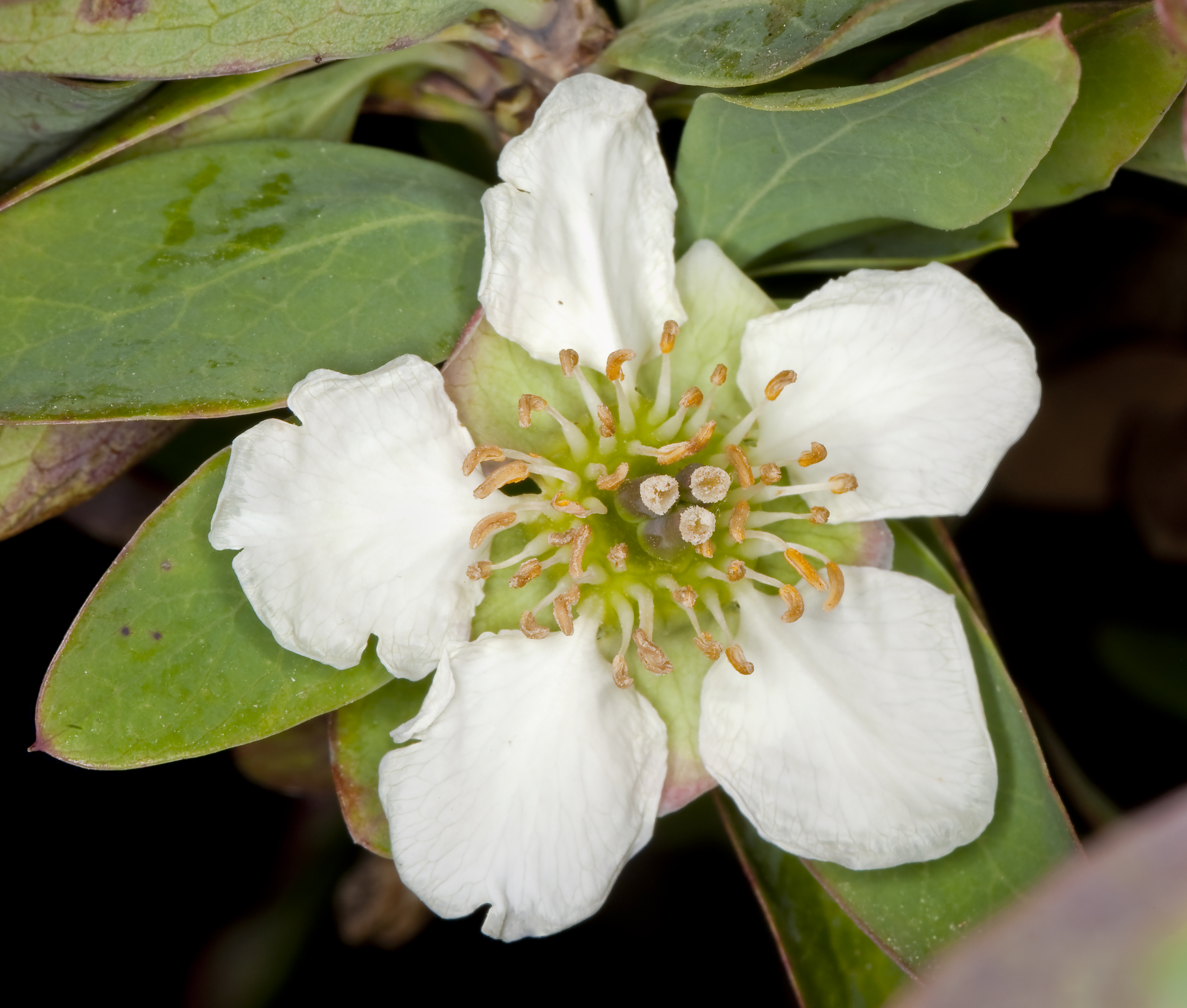 Crossosoma californicum (California rockflower). Shrub in open country, San Clemente Island, California.